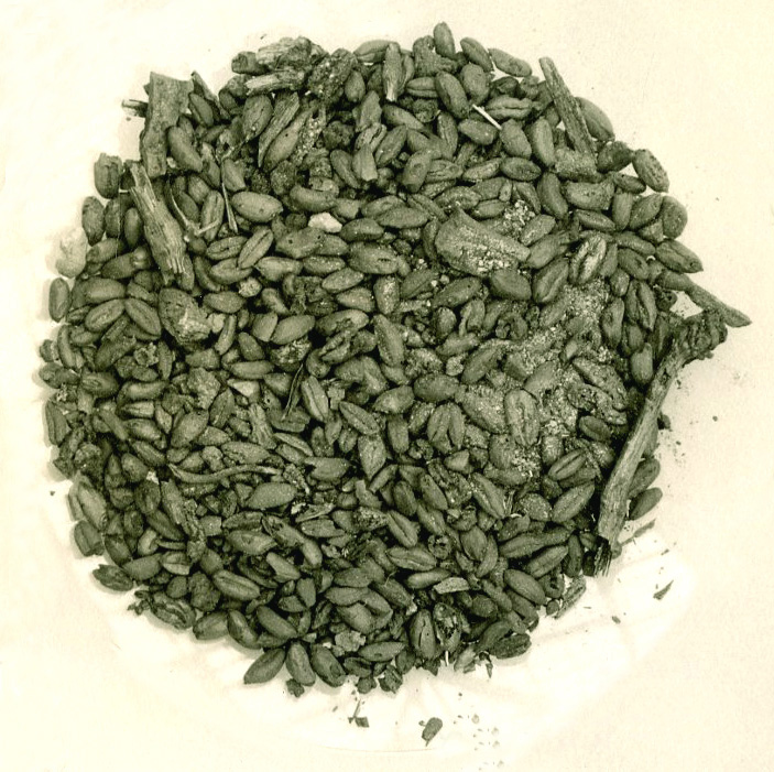 Food, grain, burned